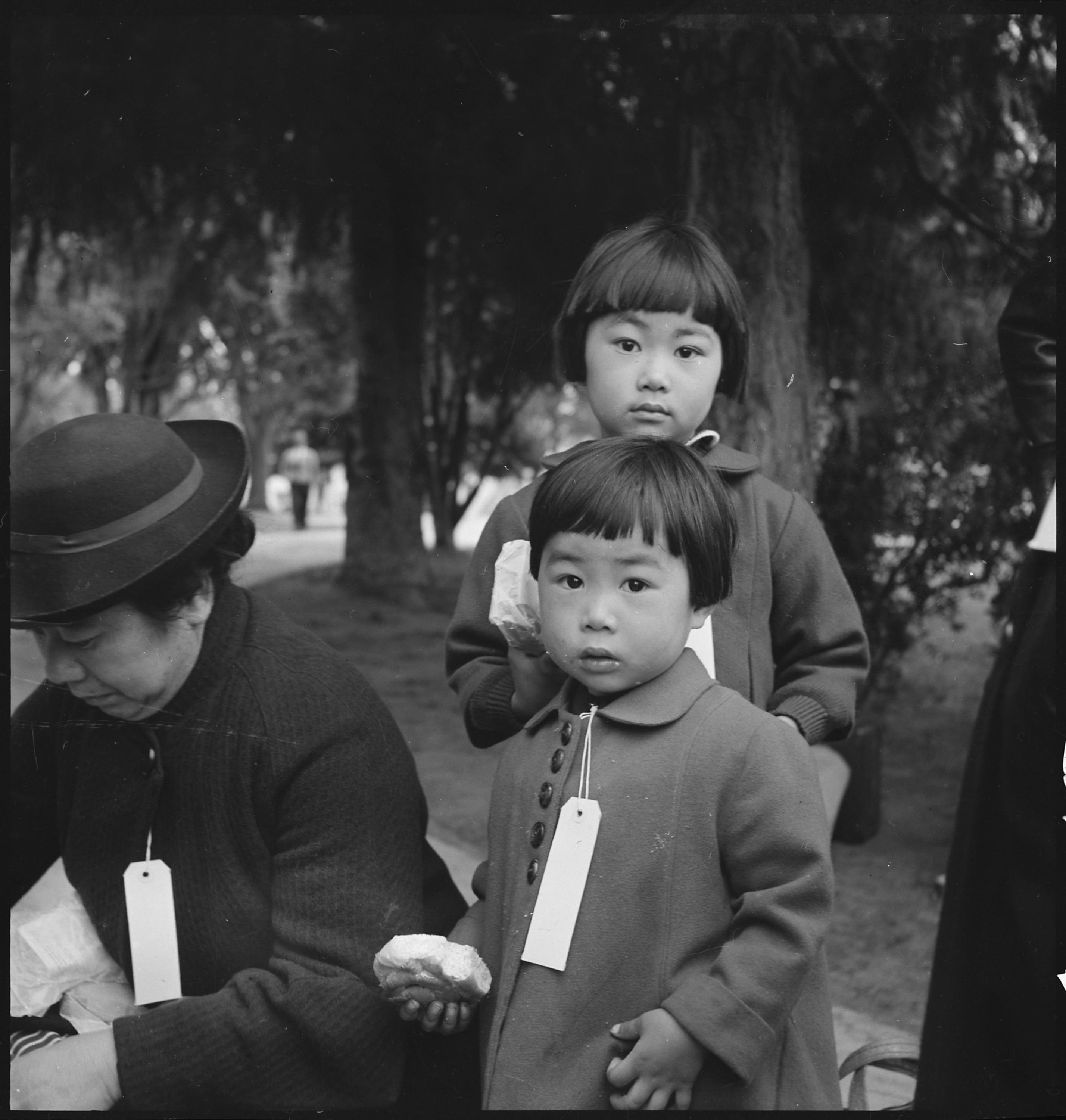 Original Caption: Hayward, California. Two children of the Mochida family who, with their parents, are awaiting evacuation bus. The youngster on the right holds a sandwich given her by one of a group of women who were present from a local church. The family unit is kept intact during evacuation and at War Relocation Authority centers where evacuees of Japanese ancestry will be housed for the duration. U.S. National Archives' Local Identifier: NWDNS-210-G-C155 From: Series: Central Photographic File of the War Relocation Authority, compiled 1942 – 1945 (Record Group 210) Created by: Department of the Interior. War Relocation Authority. (02/16/1944 - 06/30/1946) Production Date: 05/08/1942 Photographer: Lange, Dorothea, 1895-1965 Persistent URL: Repository: Still Pictures Unit at the National Archives at College Park (College Park, MD) For information about ordering reproductions of photographs held by the U.S. National Archives' Still Picture Unit, visit: Reproductions may be ordered via an independent vendor. The U.S. National Archives maintains a list of vendors at Access Restrictions: Unrestricted Use Restrictions: Unrestricted